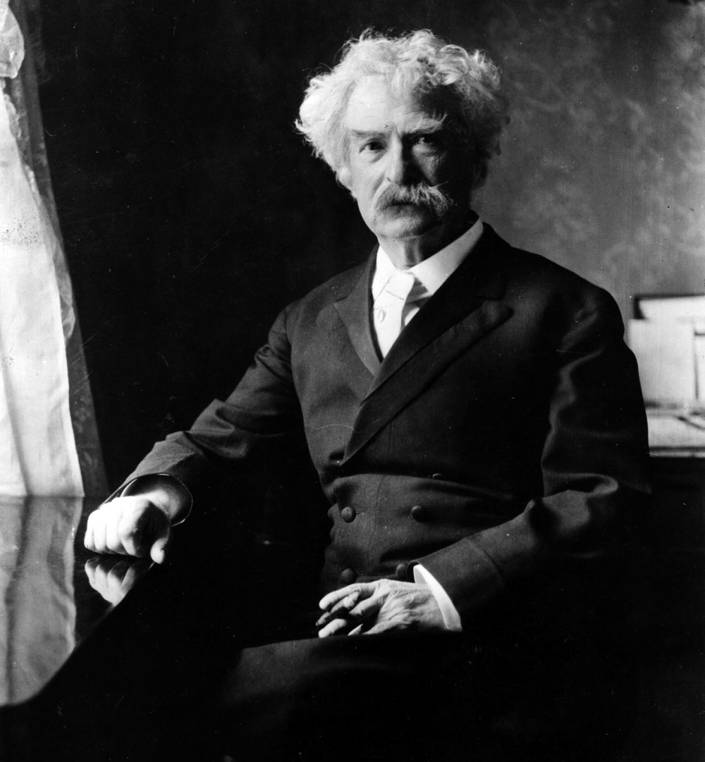 Portrait photograph of Mark Twain